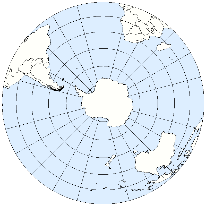 Southern Hemisphere of Earth (Lambert Azimuthal projection), with national borders added